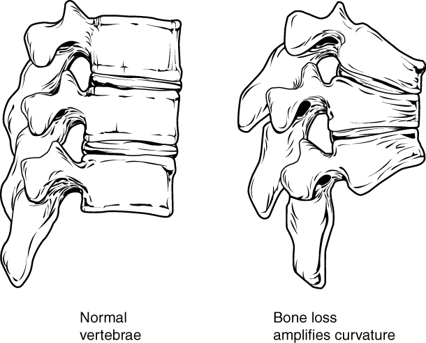 Osteoporosis is an age-related disorder that causes the gradual loss of bone density and strength. When the thoracic vertebrae are affected, there can be a gradual collapse of the vertebrae. This results in kyphosis, an excessive curvature of the thoracic region.